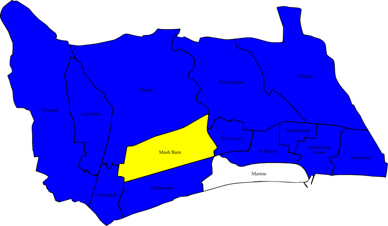 A map of the results of the 2006 Adur Council election. Colour legend by wards won: Conservative party Liberal Democrats Independent